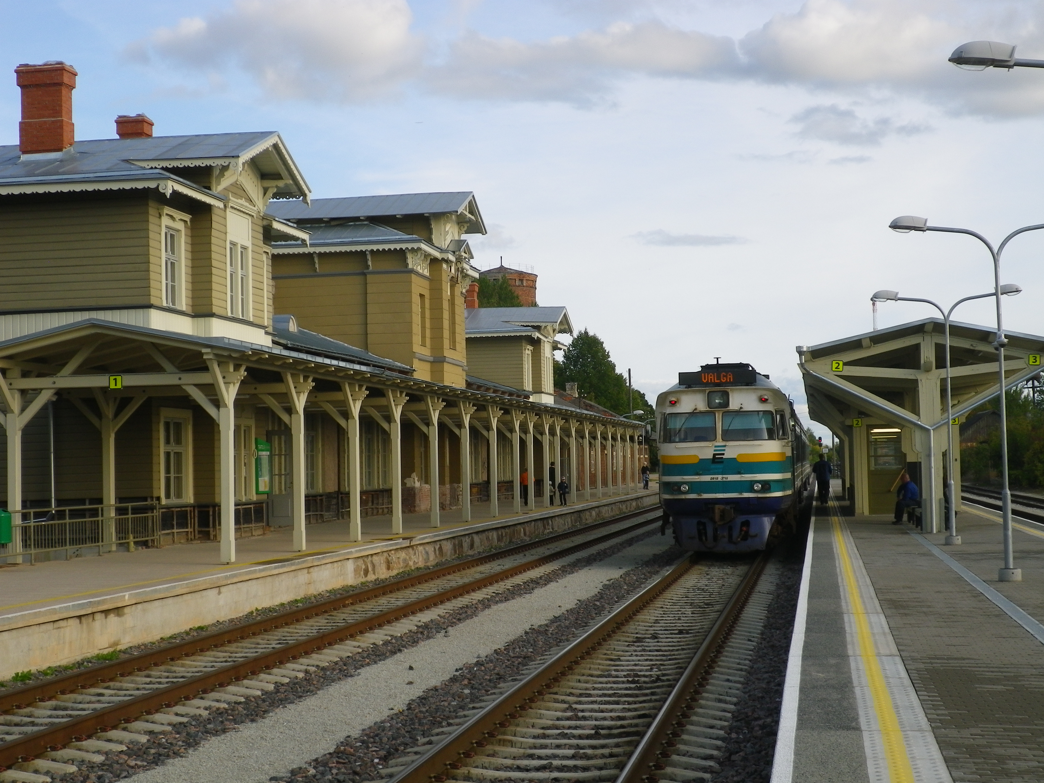 Tartu railway station, view from the tracks